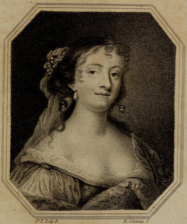 Portrait of Elizabeth Hamilton comtesse de Gramont